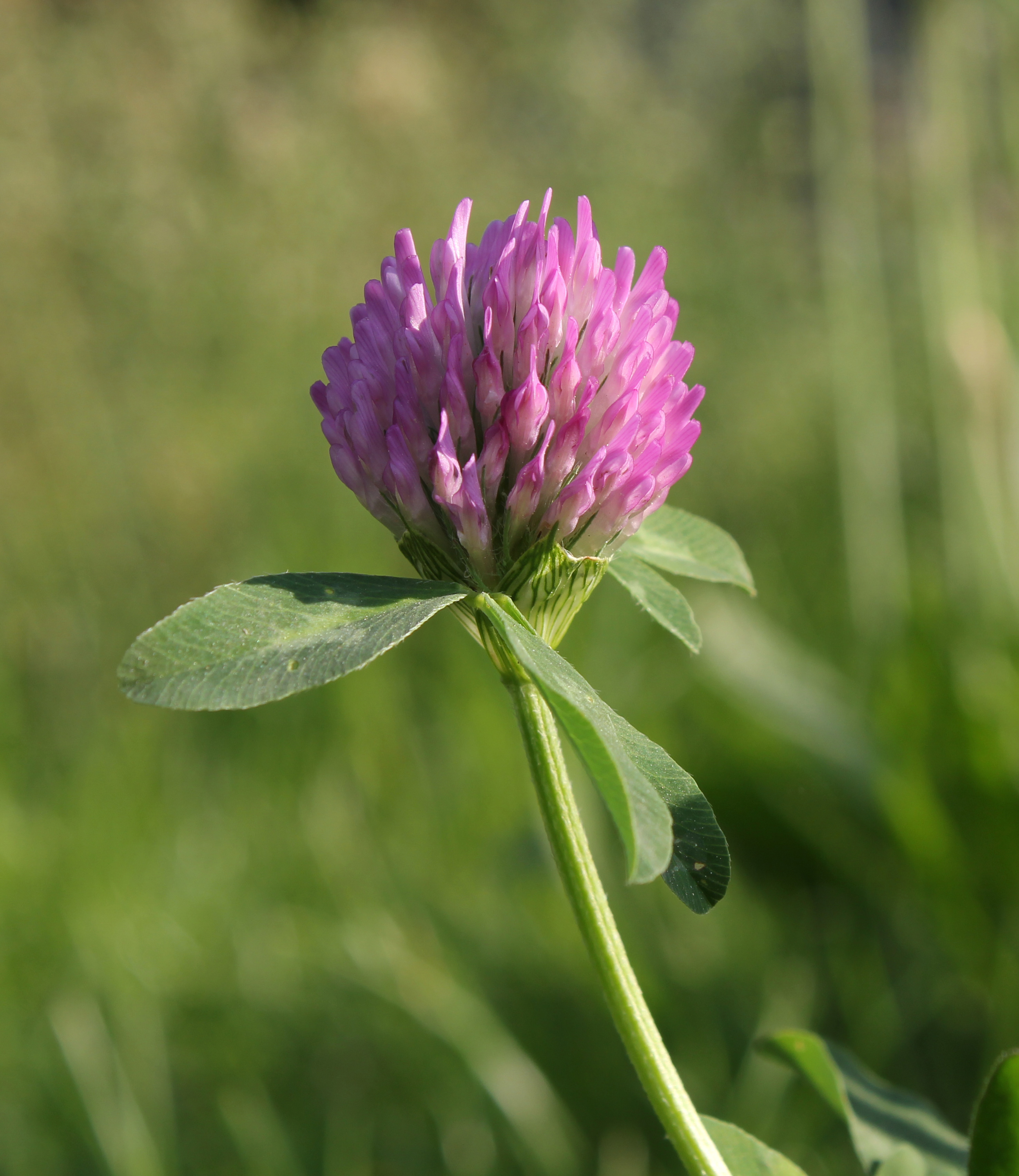 The red clover (Trifolium pratense). Ukraine